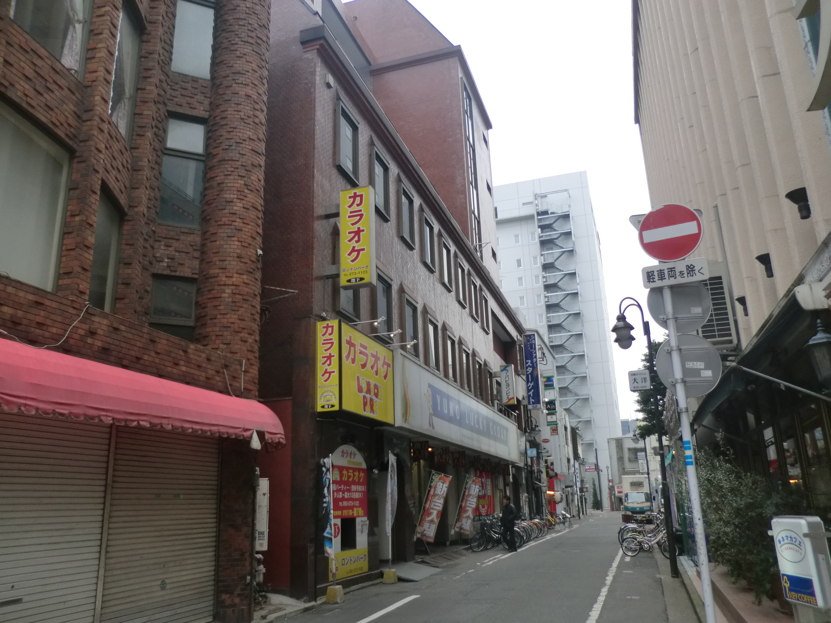 La Papillon building in Fukuoka,Fukuoka,Japan.